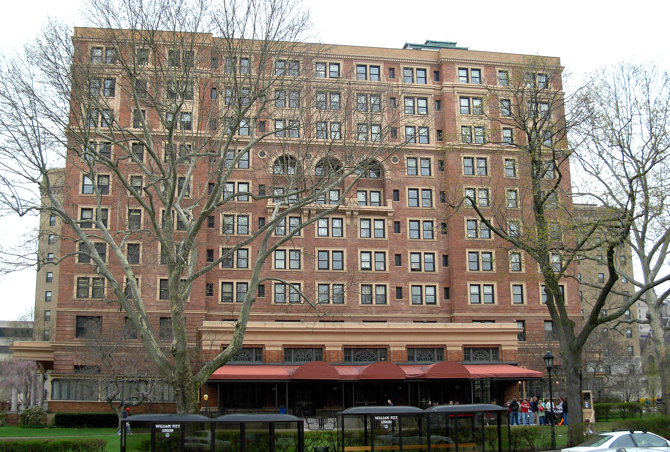 William Pitt Union from Bigelow Blvd. at the University of Pittsburgh Photo by Piotrus (edited; see original at Image:William PItt Union 01.JPG)